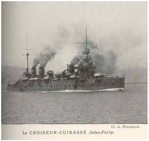 French armoured cruiser Jules-Ferry